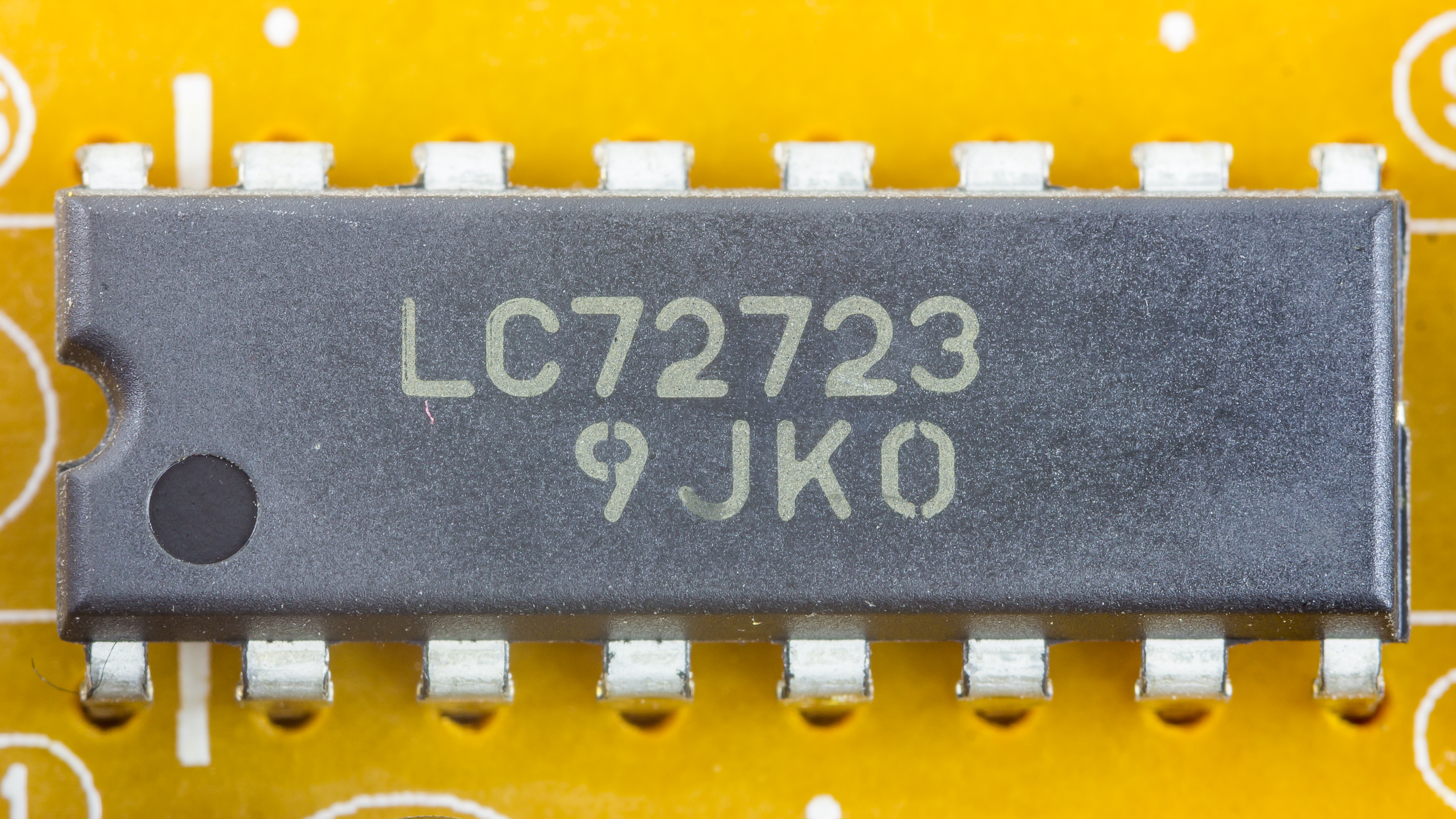 JVC MX-J950R - antenna tuner module - Sanyo LC72723 - RDS Demodulation IC. Package: DIP16